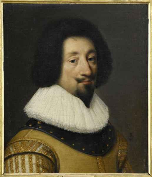 François de l'Aubépine, Margrave of Hauterive.